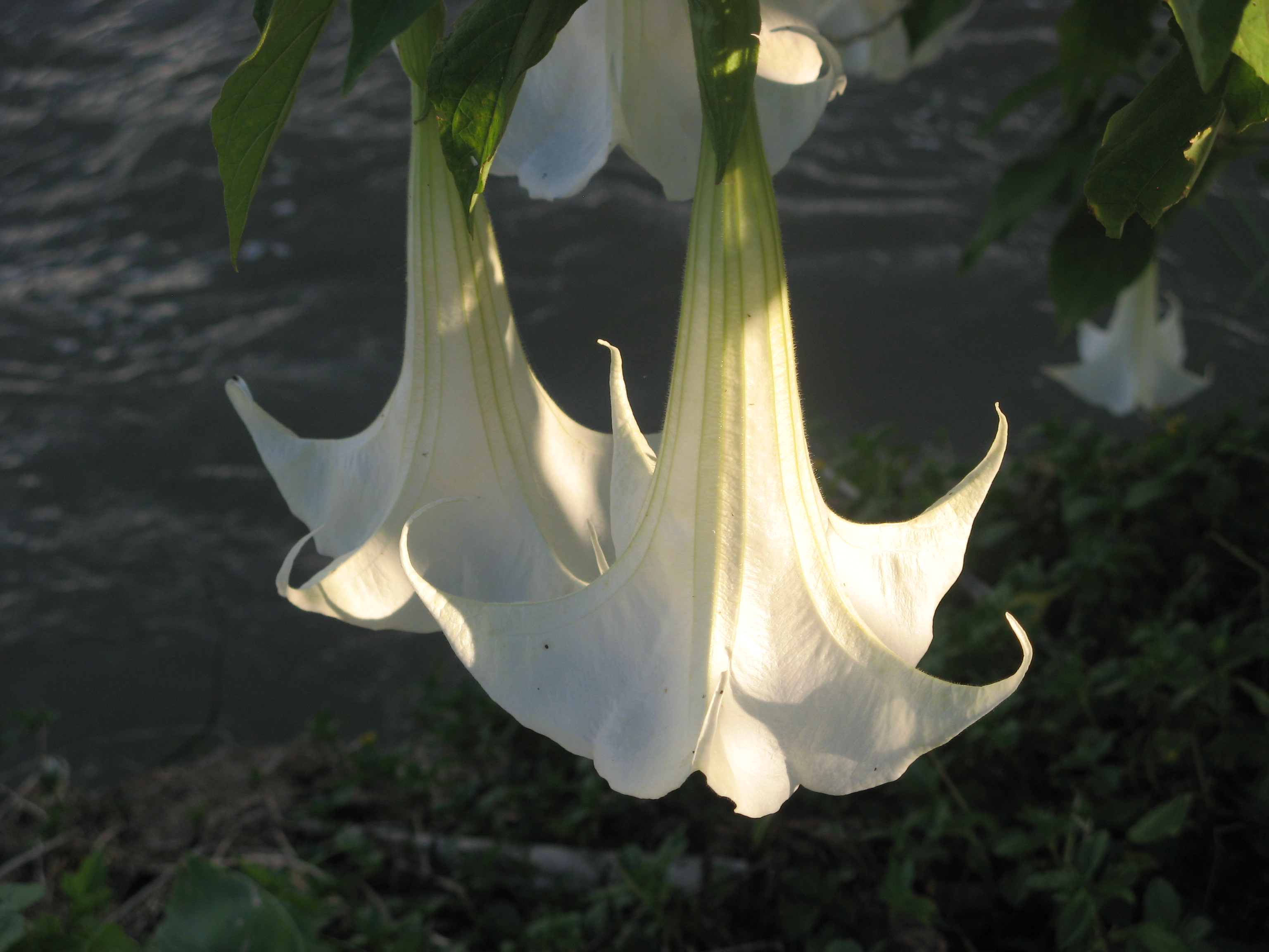 Brugmansia × candida